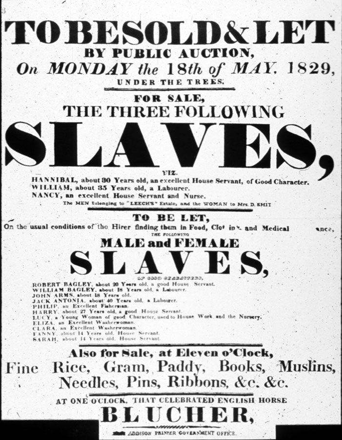 A poster for a slave auction in the British Atlantic Colony of St. Helena, 1829